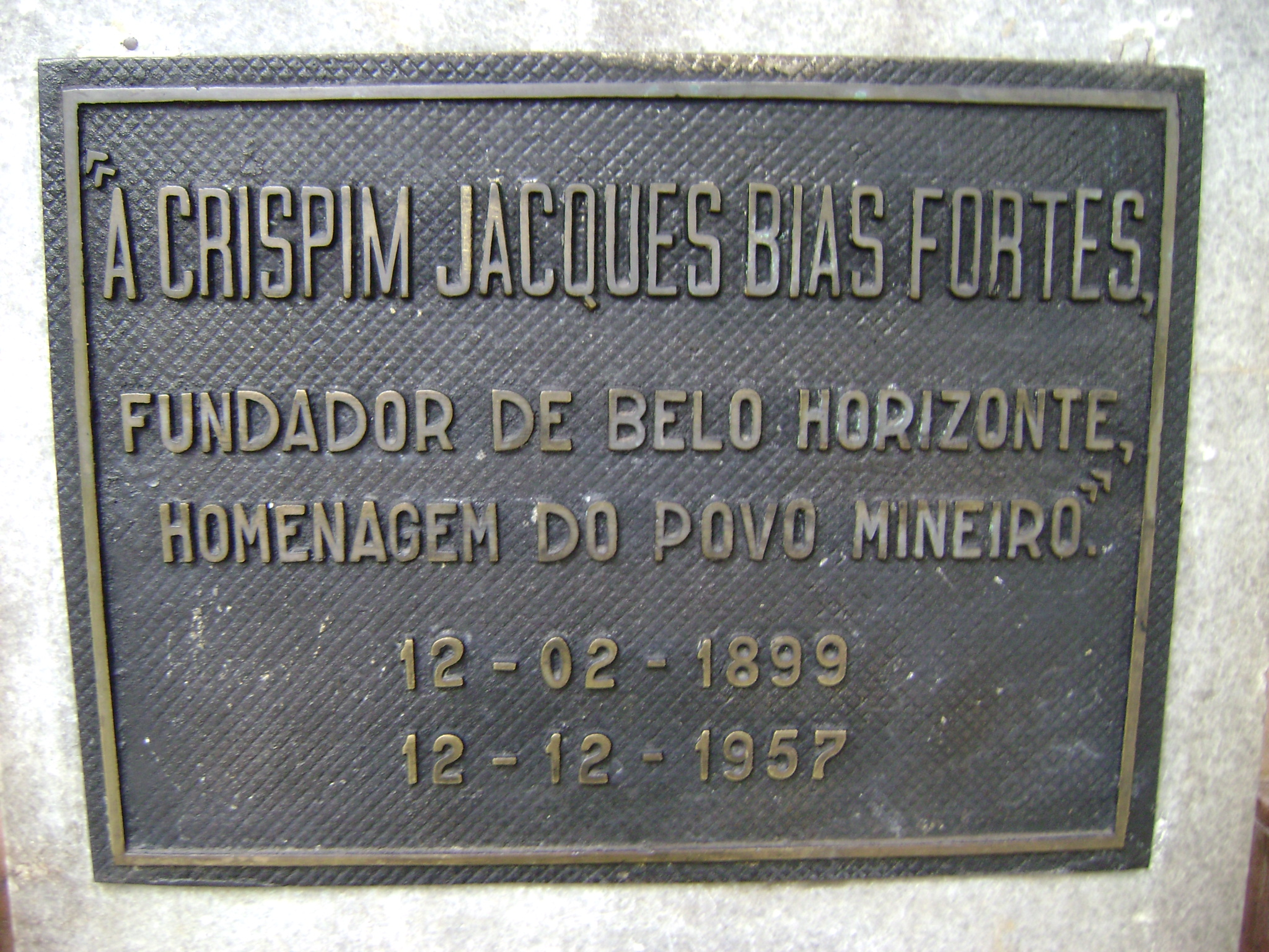 Inscrição na estátua de Bias Fortes, na Praça da Liberdade, Belo Horizonte, Brasil.